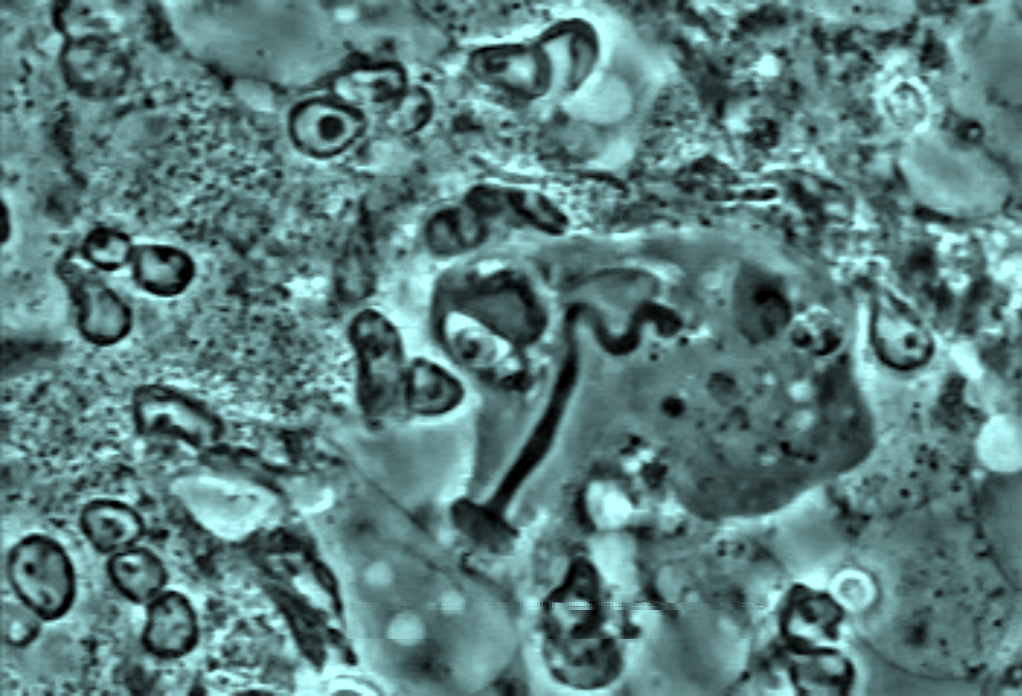 Exonucleophagy - Advancing process of phapcytosis. Note Normal PMN around, while this one just have nucleous membrane.